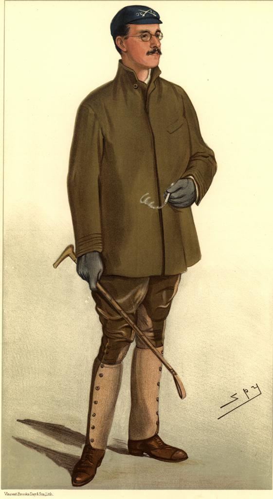 Caricature of Douglas Hamilton McLean - “Ducker” .